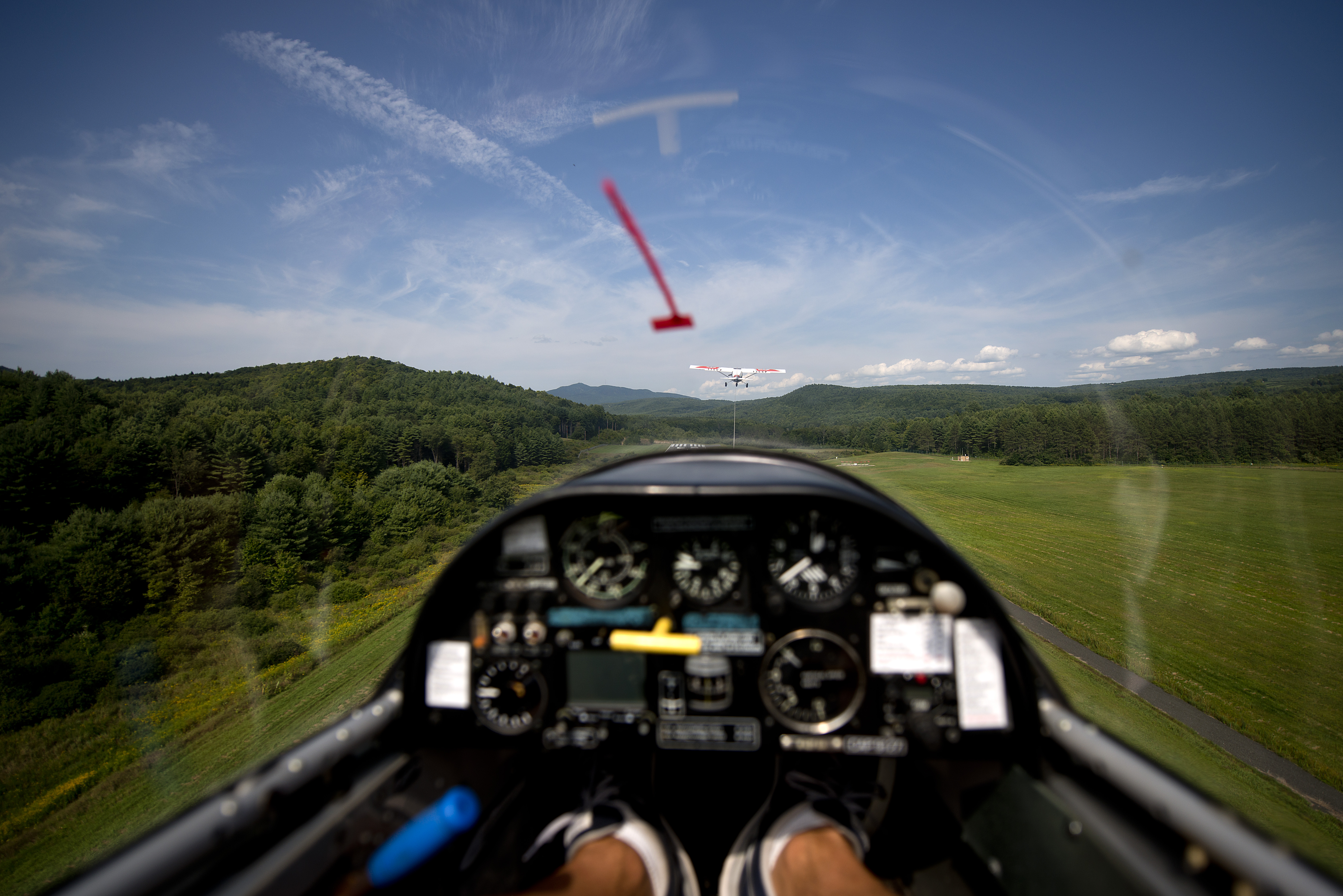 A Civil Air Patrol Maule MT-7 tows an L-23 Super Blanik glider to an area above Springfield, Vt. The initial portion of the take-off is the most critical phase of flight and students spend a lot of time studying and practicing emergency procedures. (U.S. Air Force photo/Master Sgt. Jeffrey Allen)